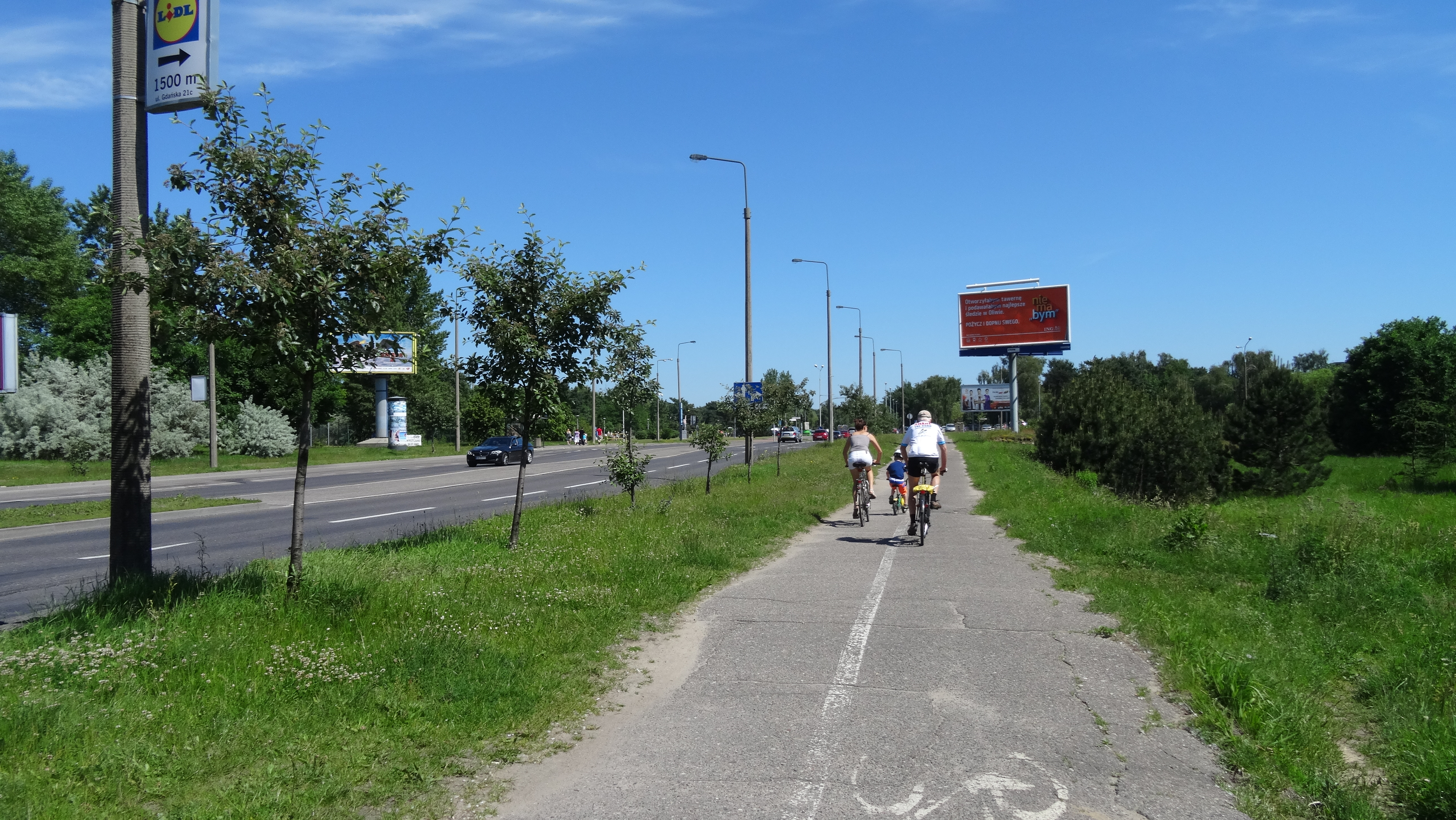 Gdańsk bicycle path along Al. Jana Pawła II